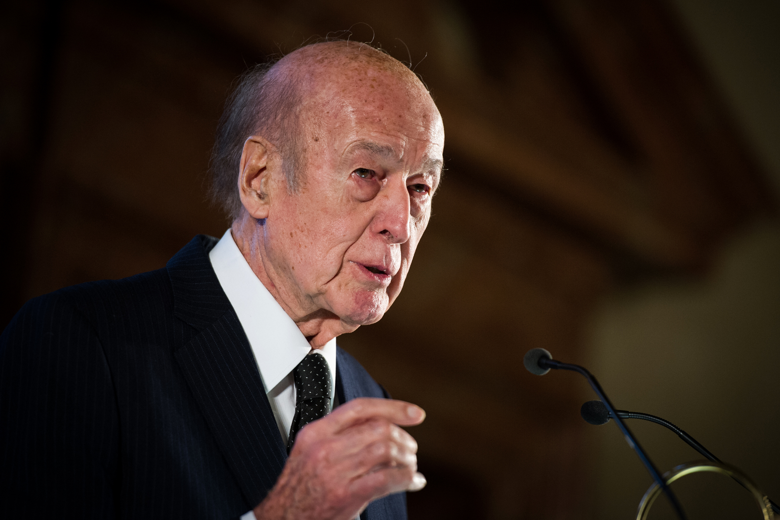 50th Munich Security Conference 2014: Valéry Giscard d'Estaing: Valéry Giscard d’Estaing (Former President of the French Republic).